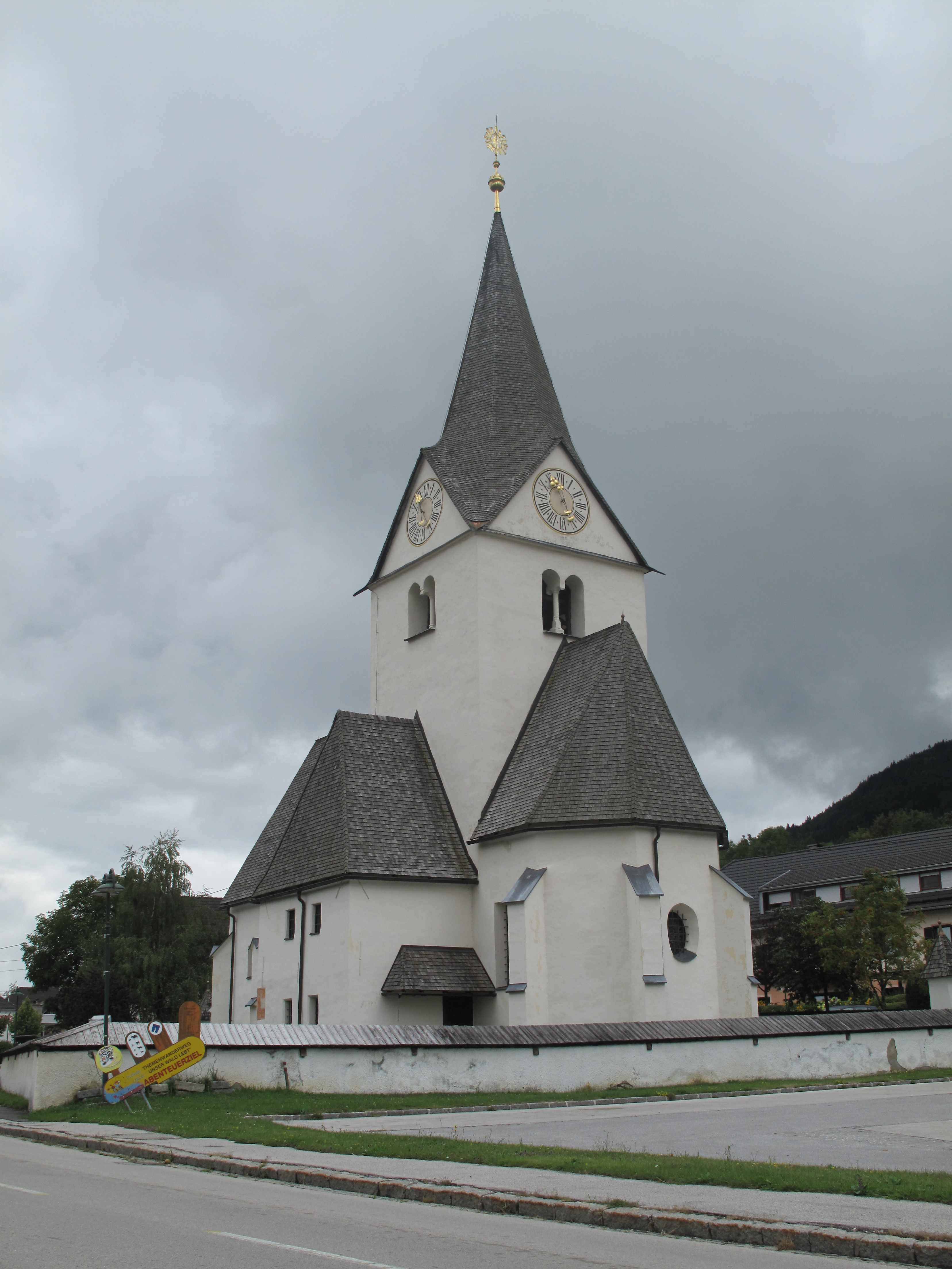 Ludmannsdorf, church: Pfarrkirche St. Jakob